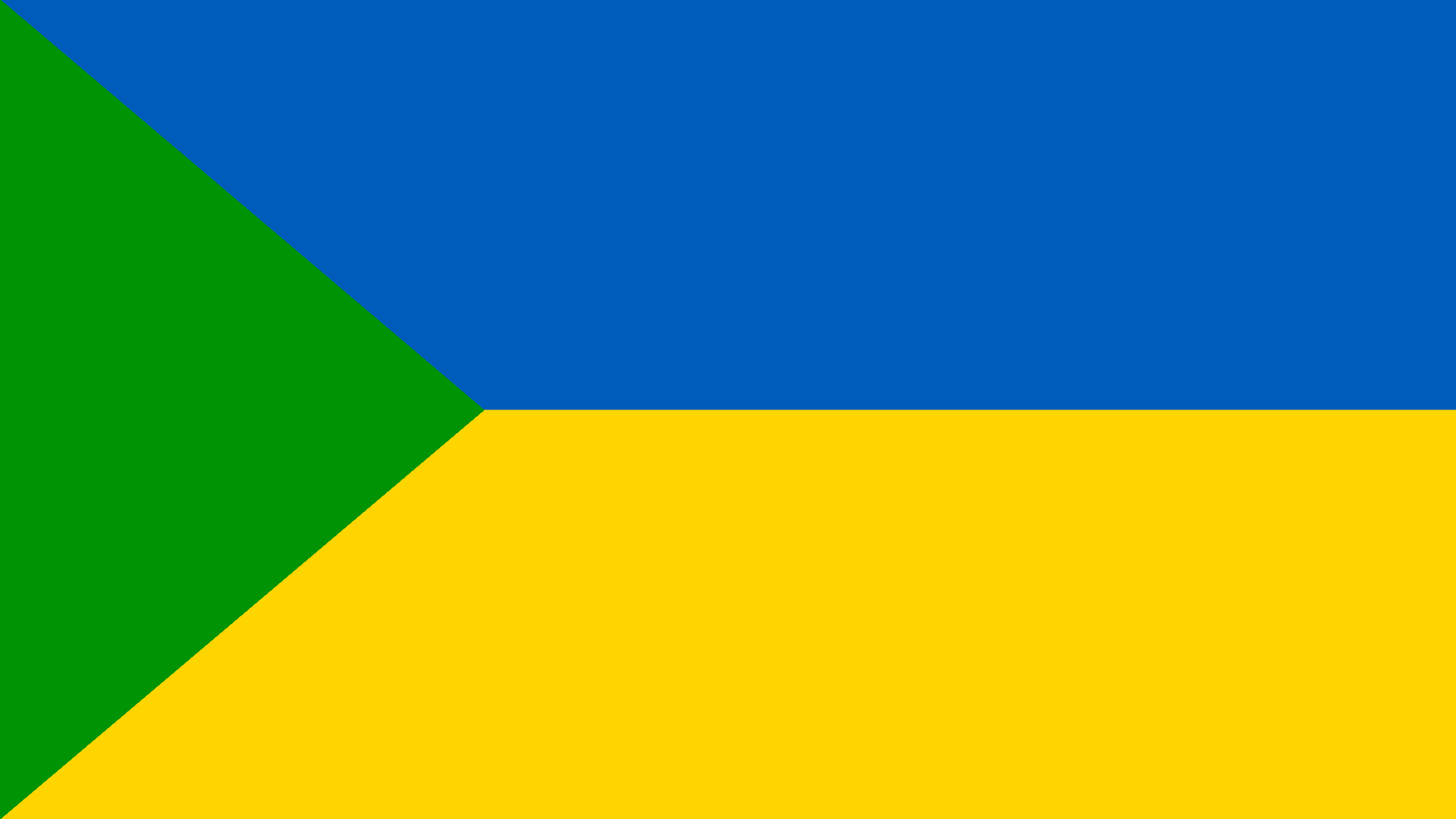 Flag Green Kiln